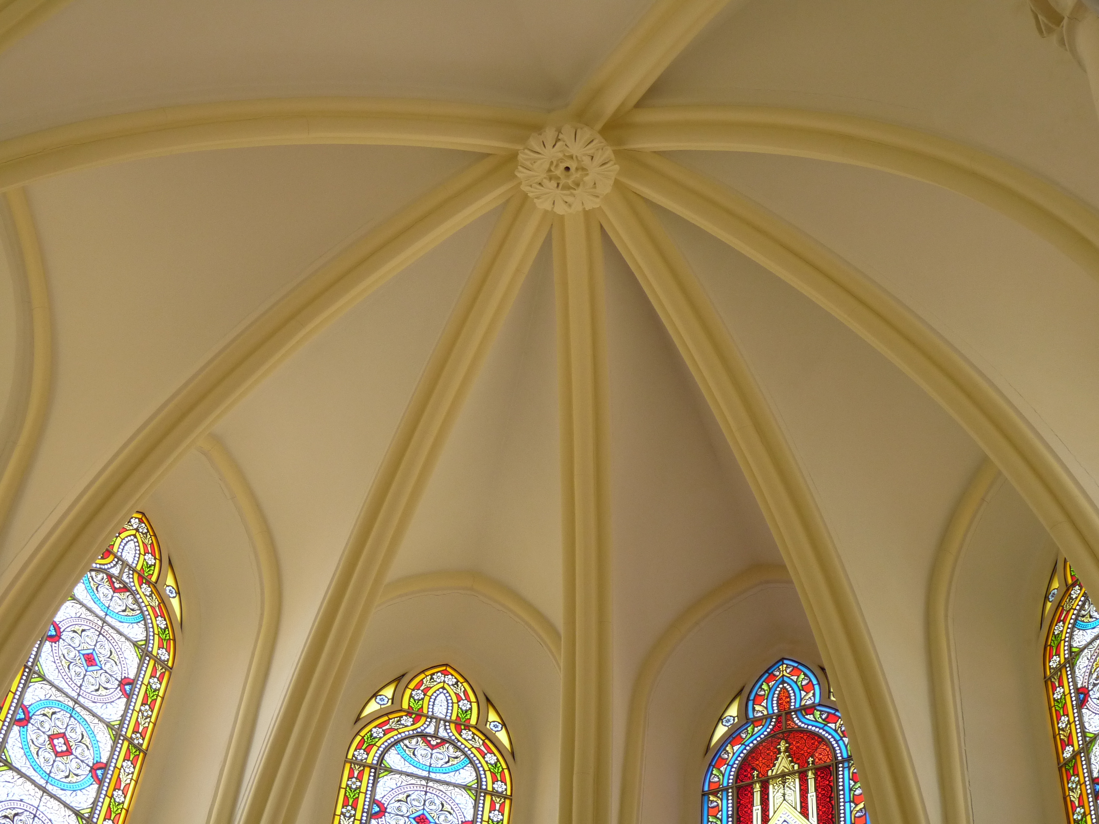 Rib vault was one of the neo-gothic characteristics in Bethanie's architectures. It used to be a support of the building in the past but now for a decorational purpose after restoration.